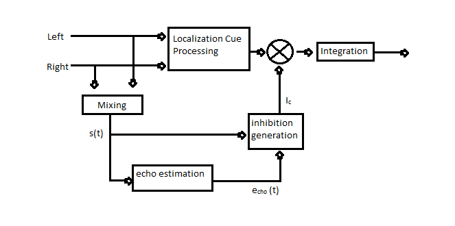 EA model of the precedence effect for usage in sound localization in reverberant environments